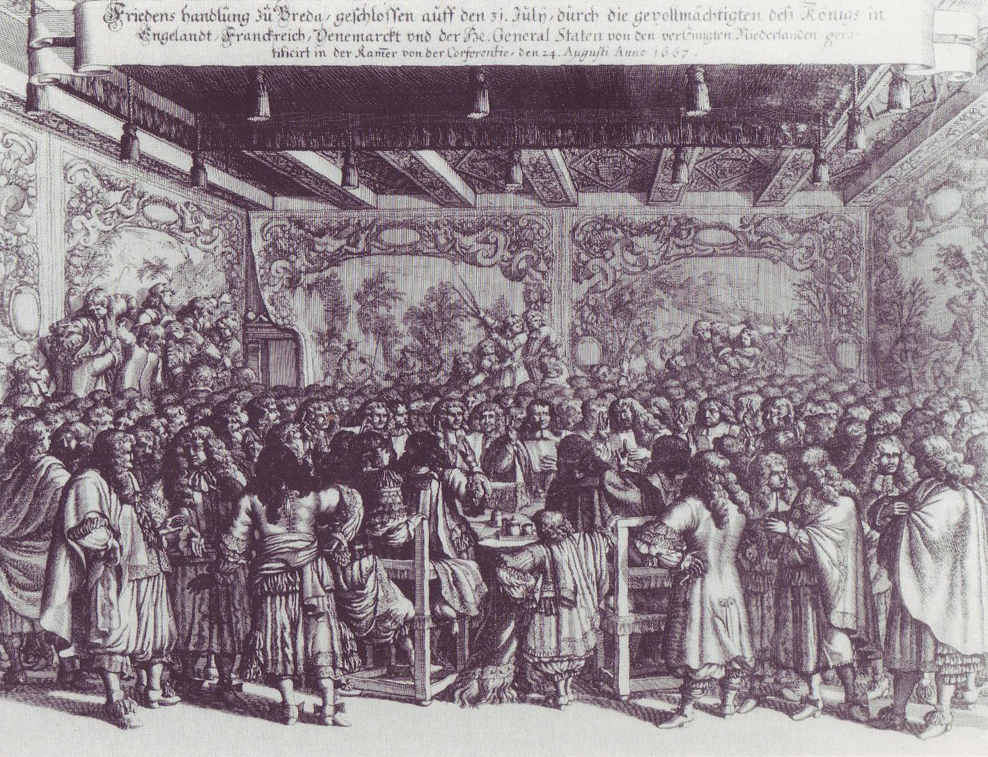 Contemporary engraving showing the Peace conference of Breda between England and United Netherlands in 1667 [detail]